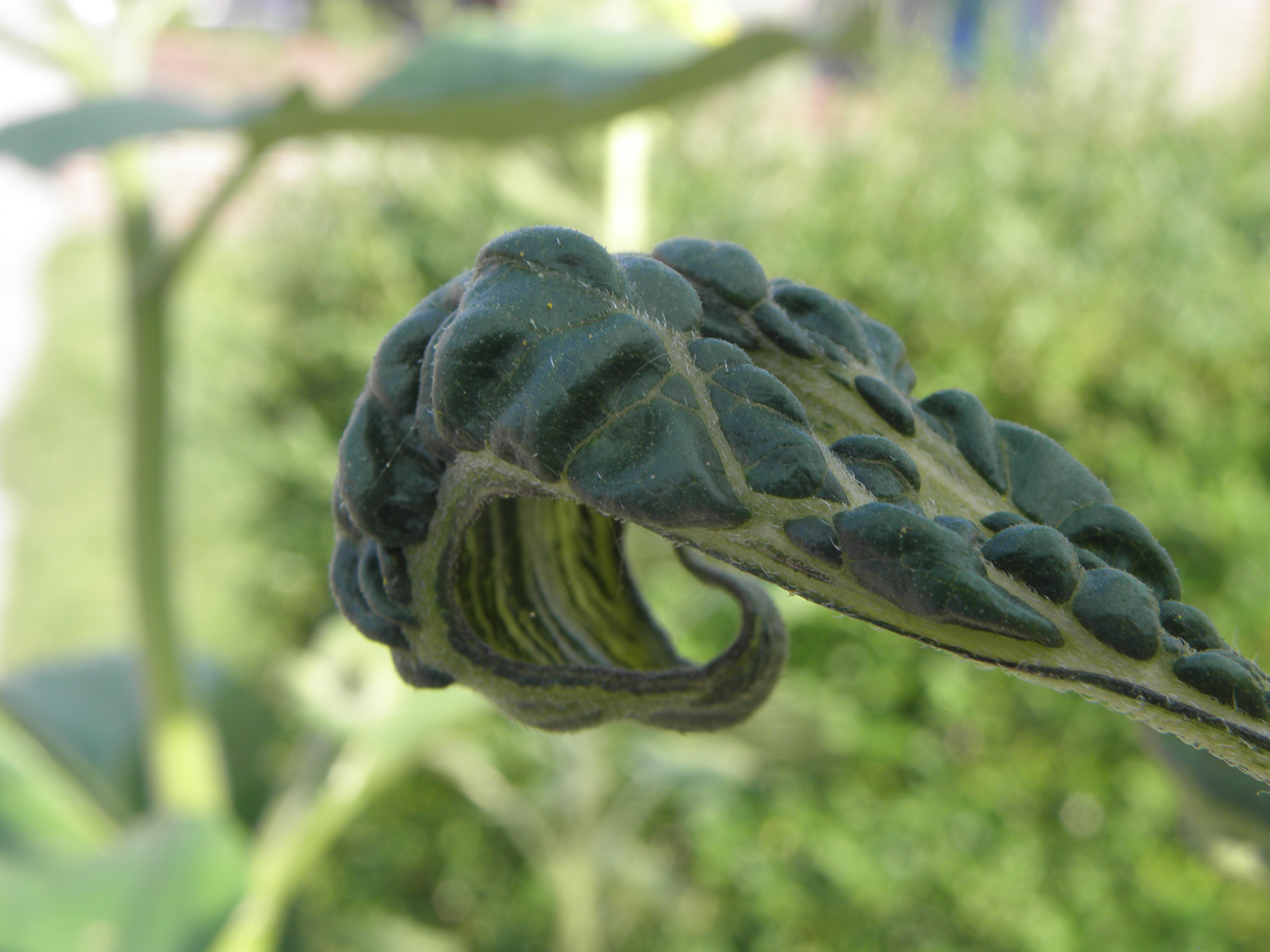 Valse meeldauw